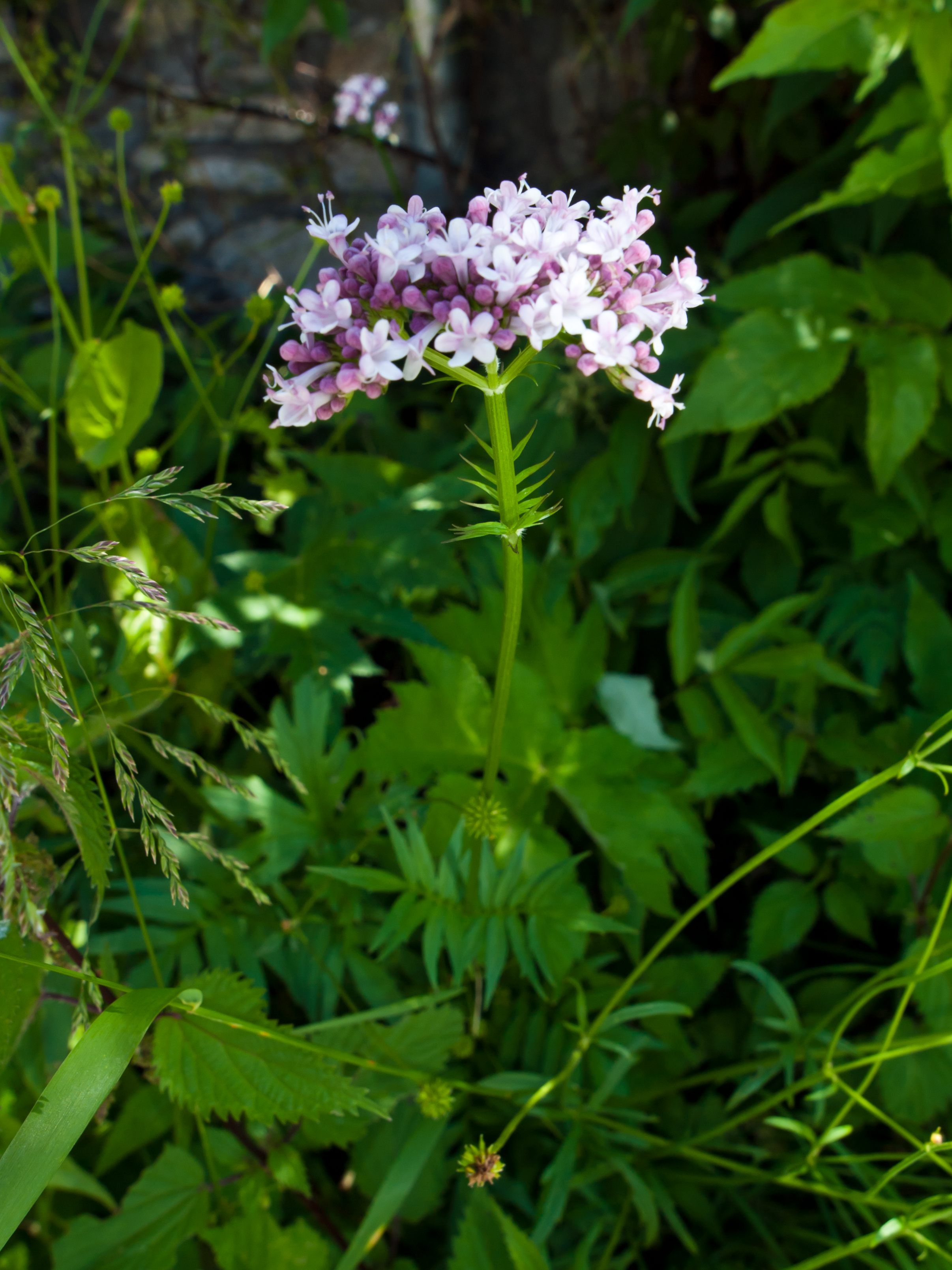 Valeriana officinalis Surpunt, Susch, Switzerland